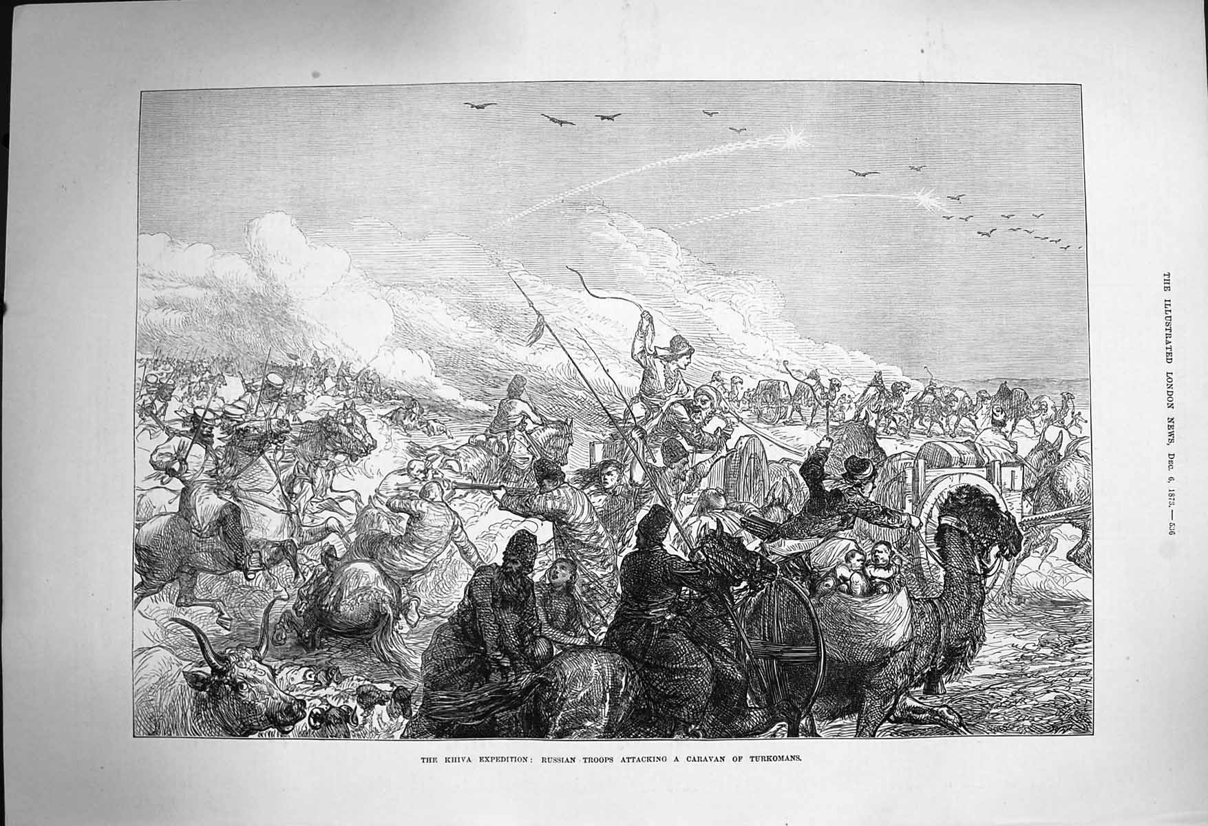 Engraved from the The Illustrated London News that shows soldiers of the 1873 Russian expedition attacking a turcoman caravan